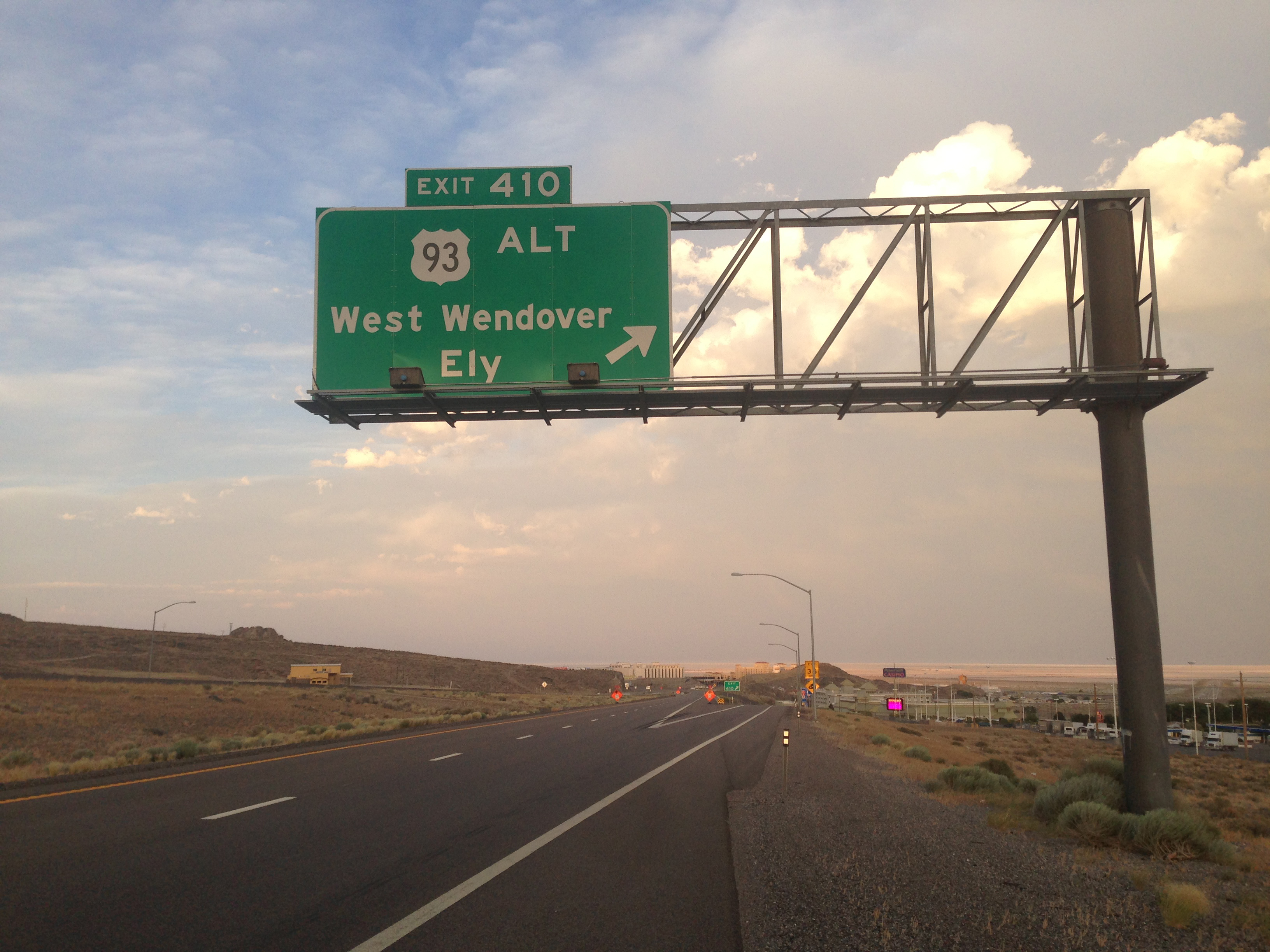 Sign for Exit 410 along eastbound Interstate 80 in West Wendover, Nevada